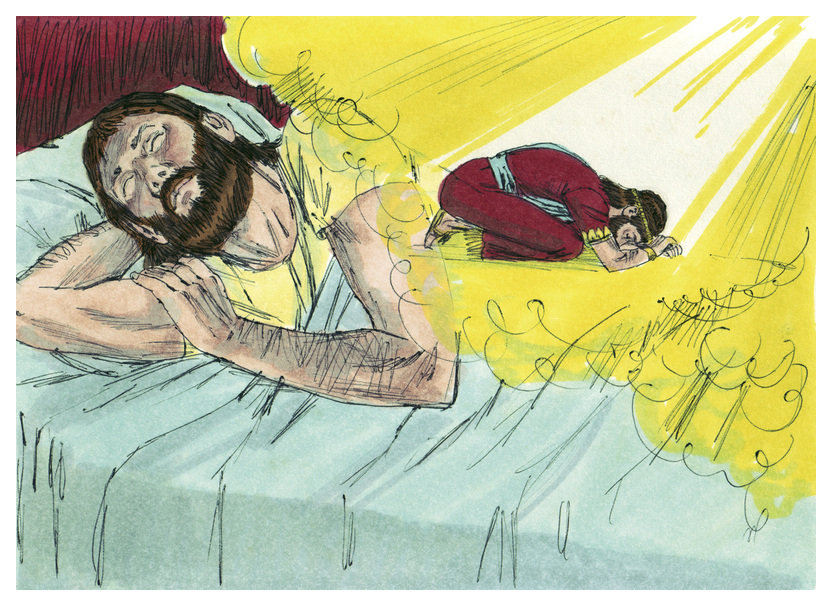 Biblical illustration of First Book of Kings Chapter 3